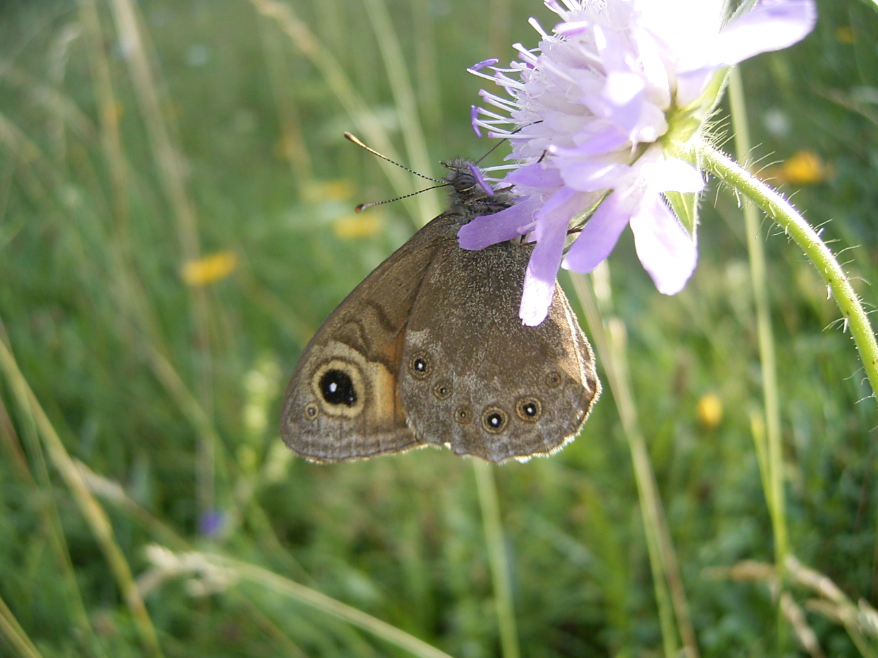 IMAGE SHOWS Lasiommata maera, the brown line on the backwings is missing! (see Image:Lasiommata petropolitana 17-07-2005 17.09.54.JPG) --Kulac 14:25, 23 October 2006 (UTC) Deze foto toont de Kleine argusvlinder. Ik nam de foto tijdens een vakantie in Zuid-beieren, op camping Am Isarhorn, bij Mittenwald, of tijdens een van de wandelingen in de omgeving. This photo shows the butterfly Lasiommata petropolitana. I took the picture iduring our holiday in south Bayern, near the Austrian border, on camping Am Isarhorn or during one of our walks in the woods and mountains.